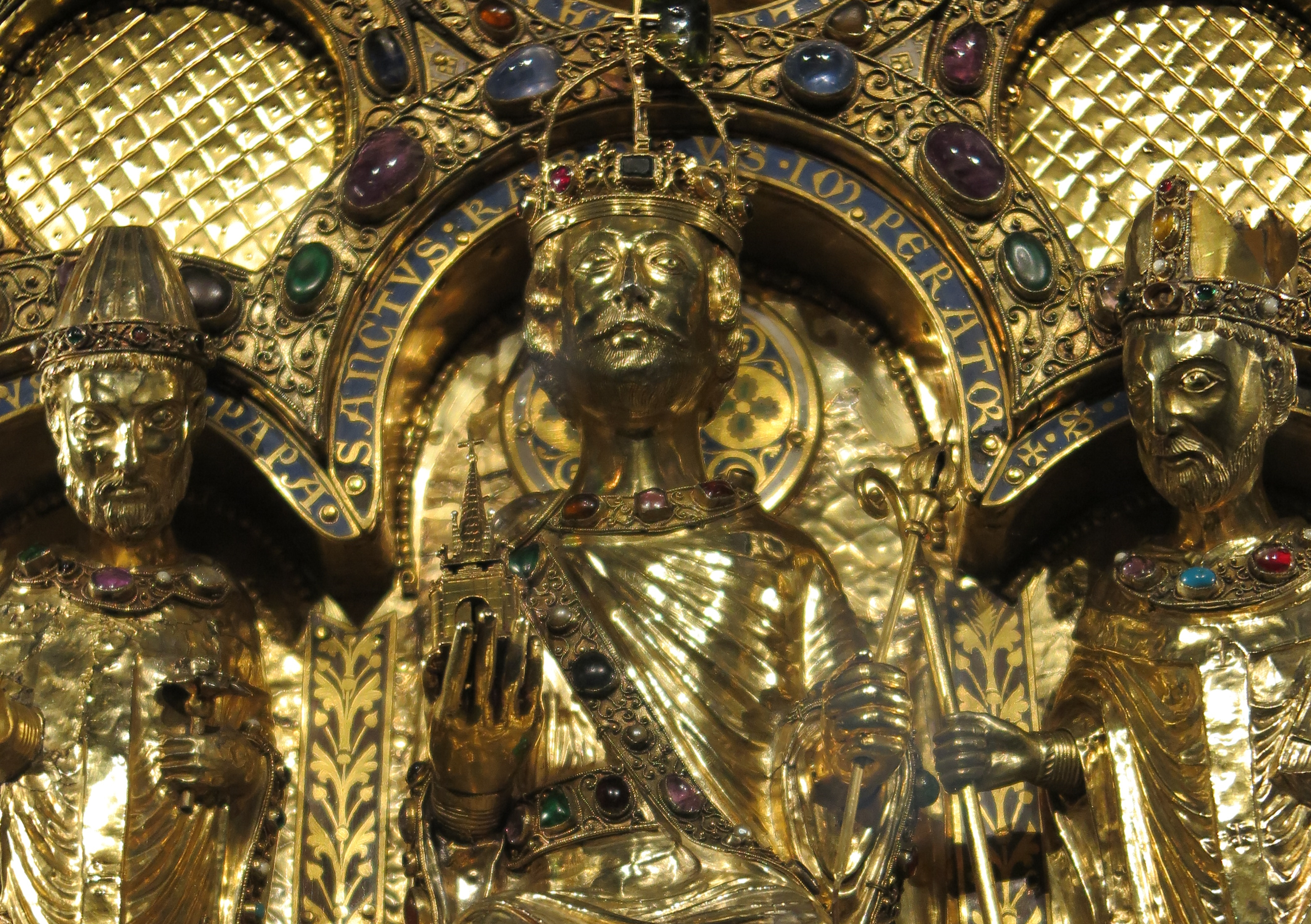 Charlemagne on the front side of the Shrine of Charlemagne, on the left Pope Leo III, on the right Archbishop Turpin.